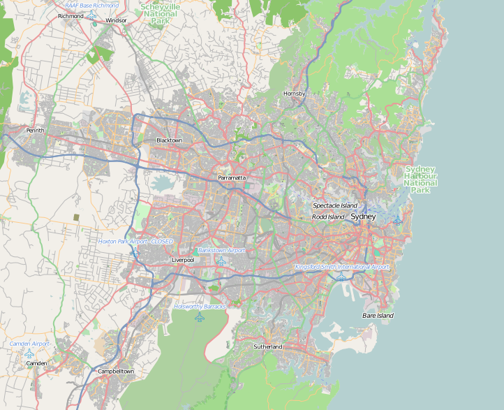 Map of Sydney Geographic limits of the map: N: -33.581° S: -34.115° W: 150.639° E: 151.429°